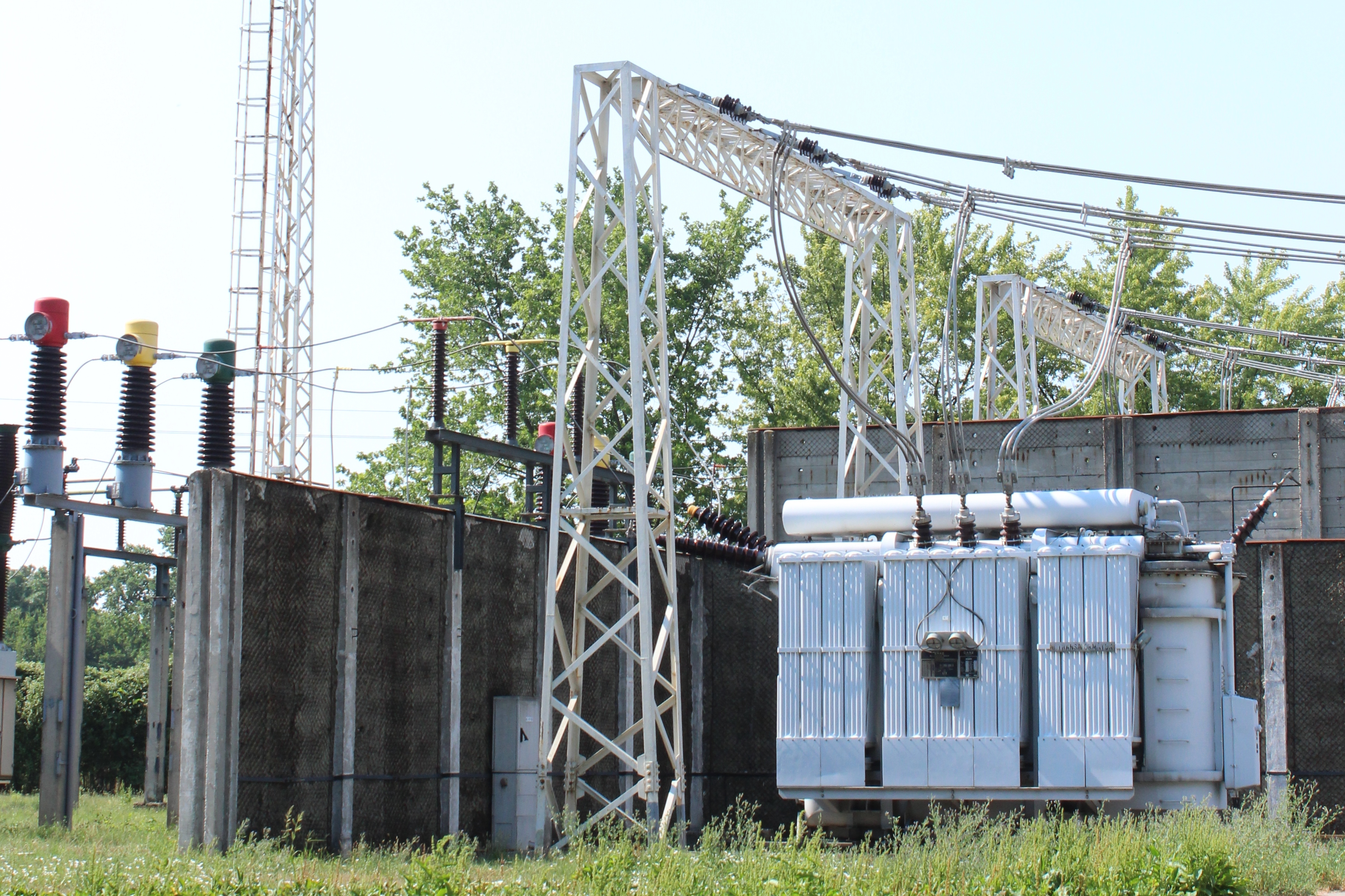 High-voltage transformer (Békéscsaba, Hungary)